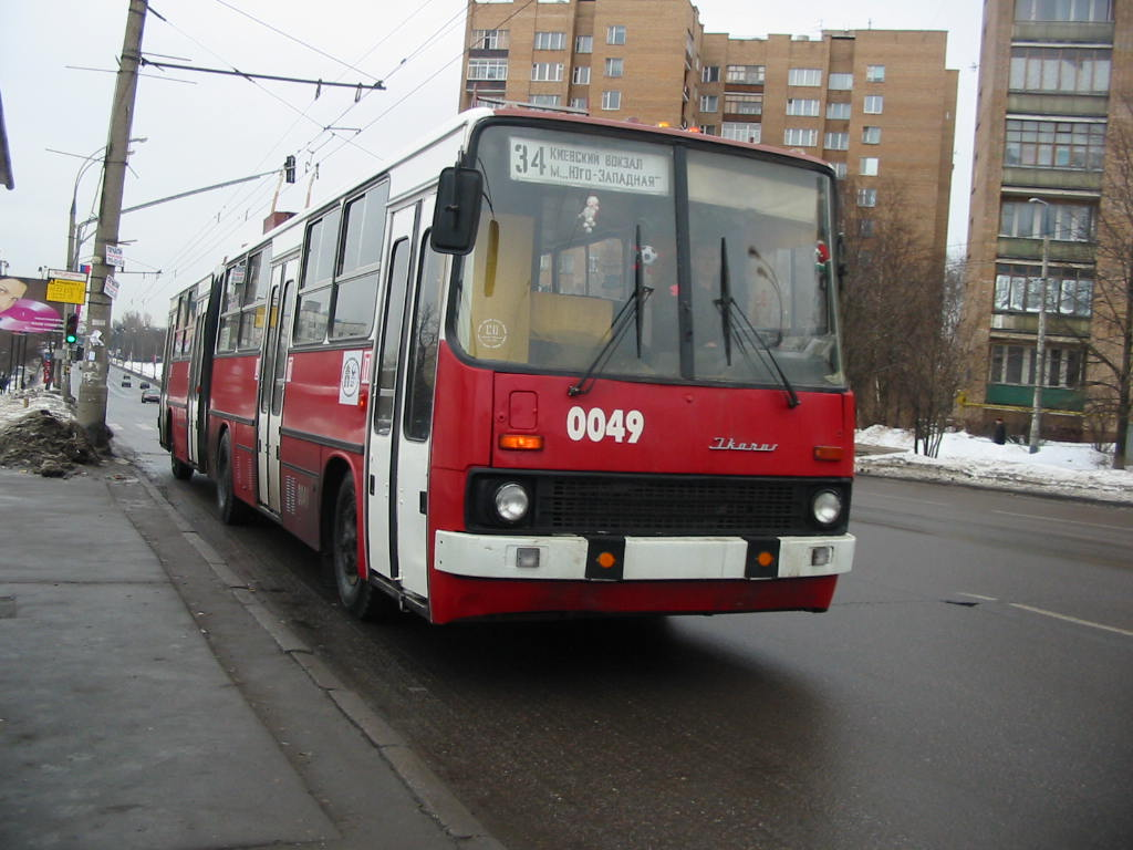 One Hungarian-build trolleybus Ikarus in Moscow. Worked in 1997-2008.